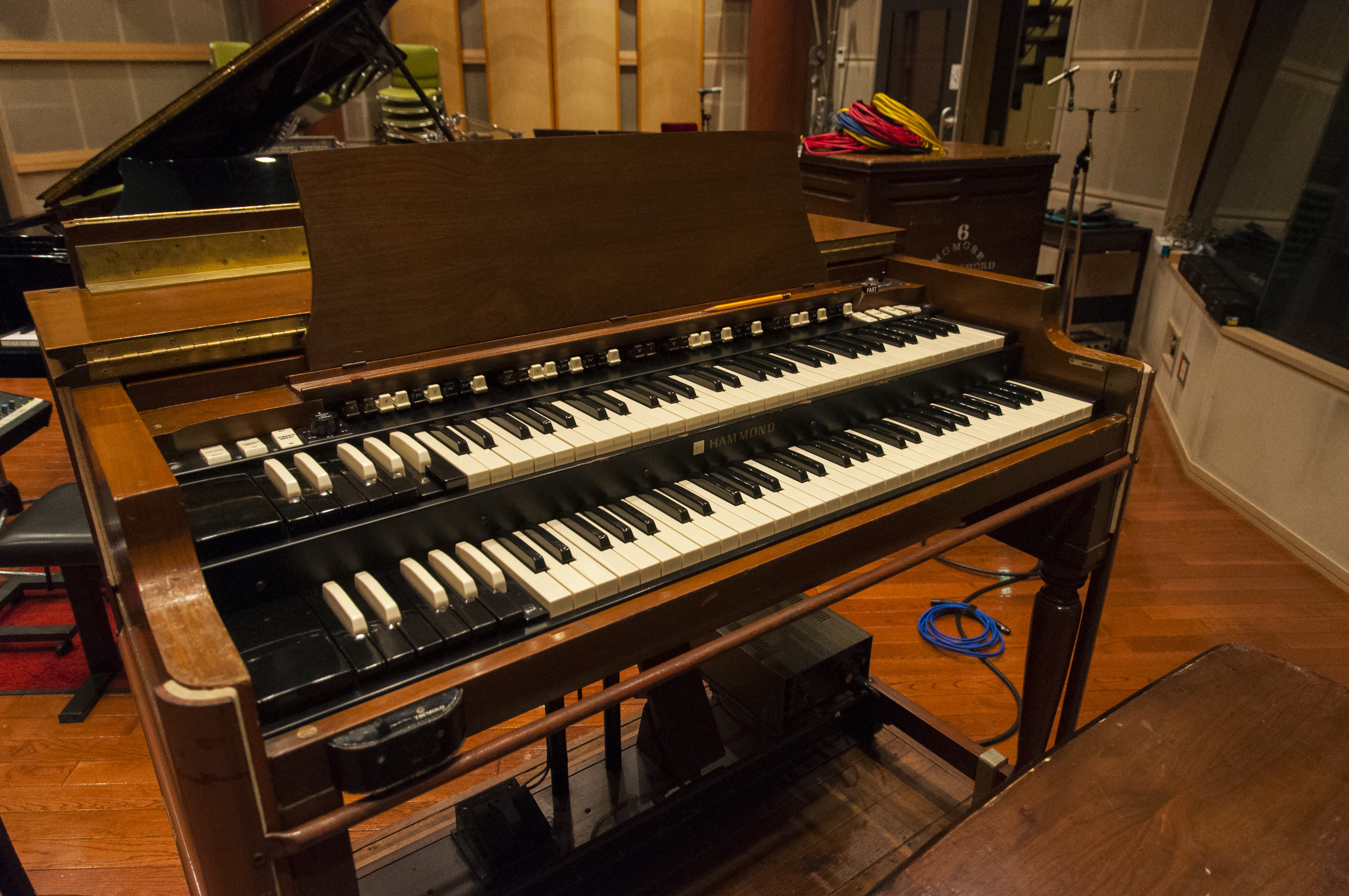 Hammond B3 Organ at Recording Studios